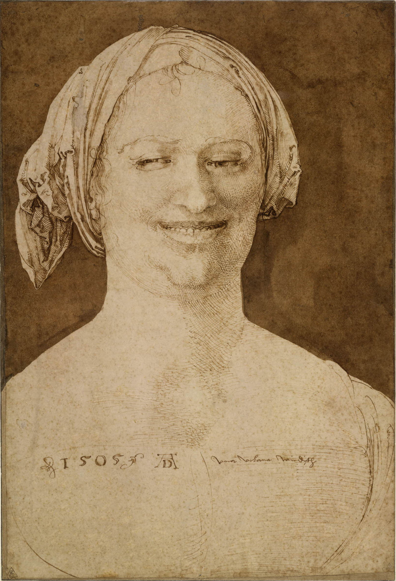 Albrecht Dürer, Portrait of a Slovene Peasant Woman (Una Villana vindisch)